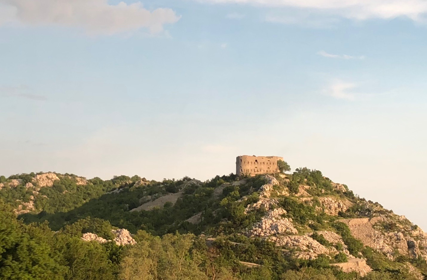 Remains of Kosmac fort in Montenegro. View from M-10 road between Cetinje and Budva.